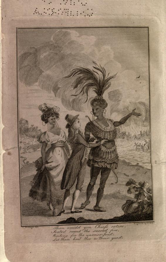 An illustration from Sarah Wentworth Morton's narrative poem Ouábi; or The Virtues of Nature: An Indian Tale in Four Cantos